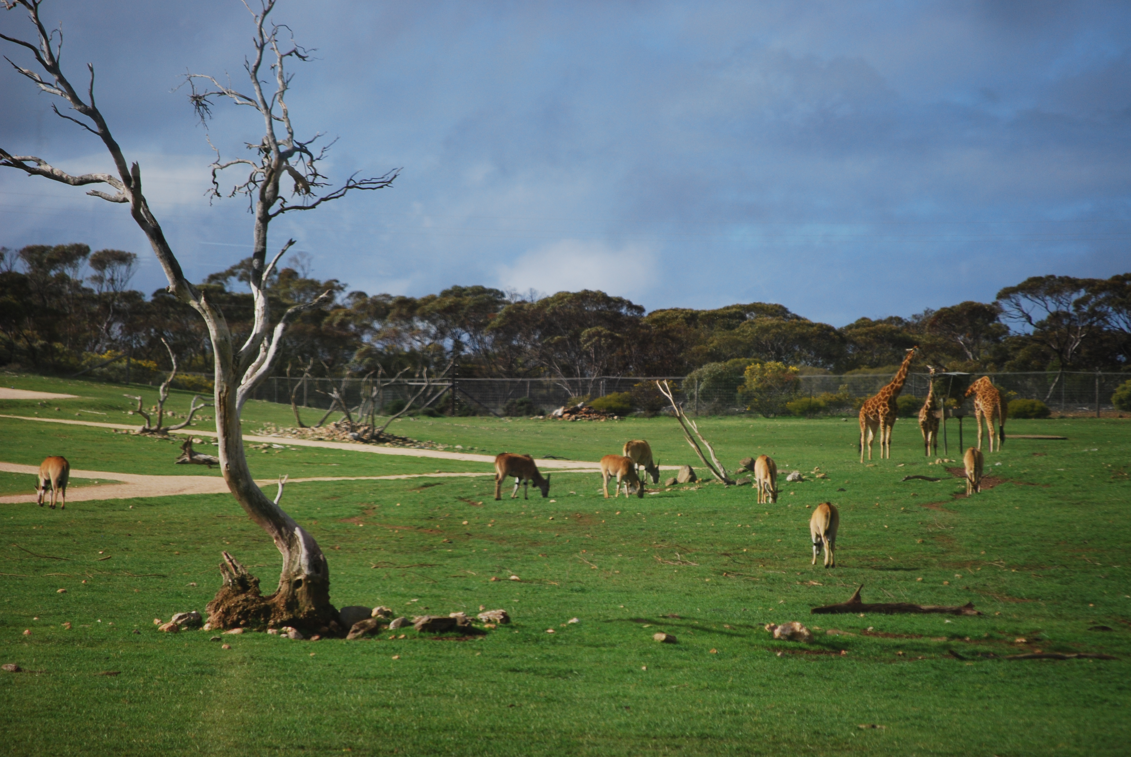 The african plains enclosure with giraffe in the background. Monarto Zoo, South Australia